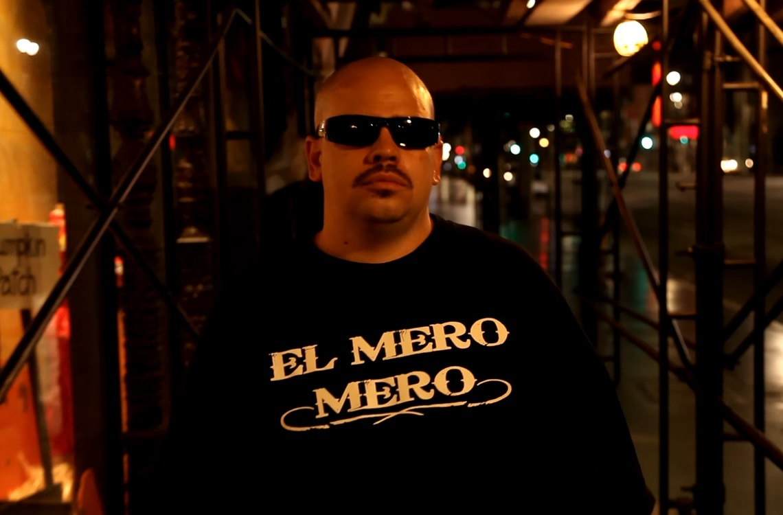 Serio in Hollywood, CA. during the filming of his music video "Chicano Rap" in 2013.